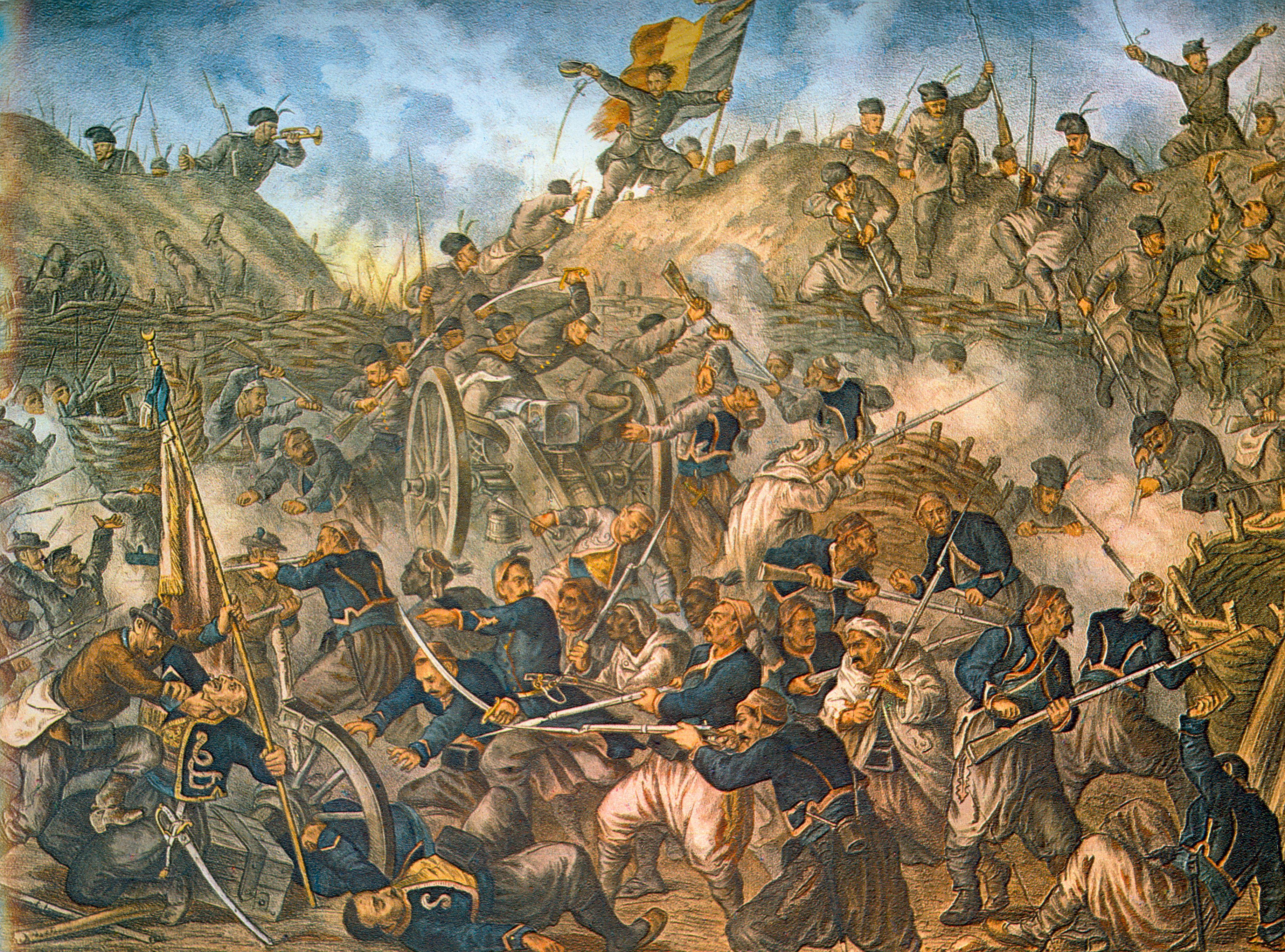 Romanian troops storming the Grivitsa redoubt during the Romanian War of Independence of 1877–1878 fought against the Ottoman Empire. The event took place on 30 August 1877.